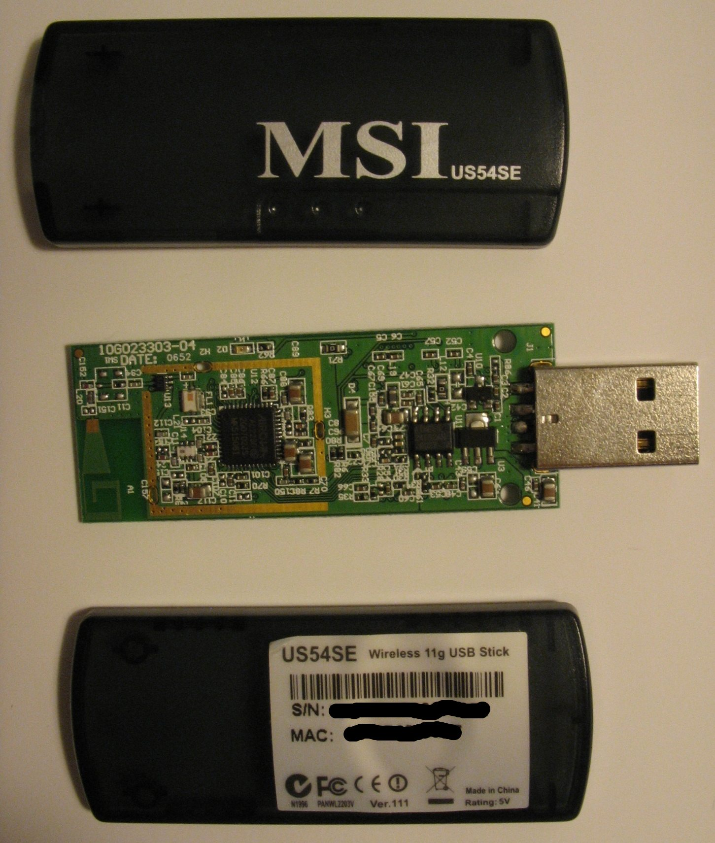 MSI US54SE wireless 11g USB stick